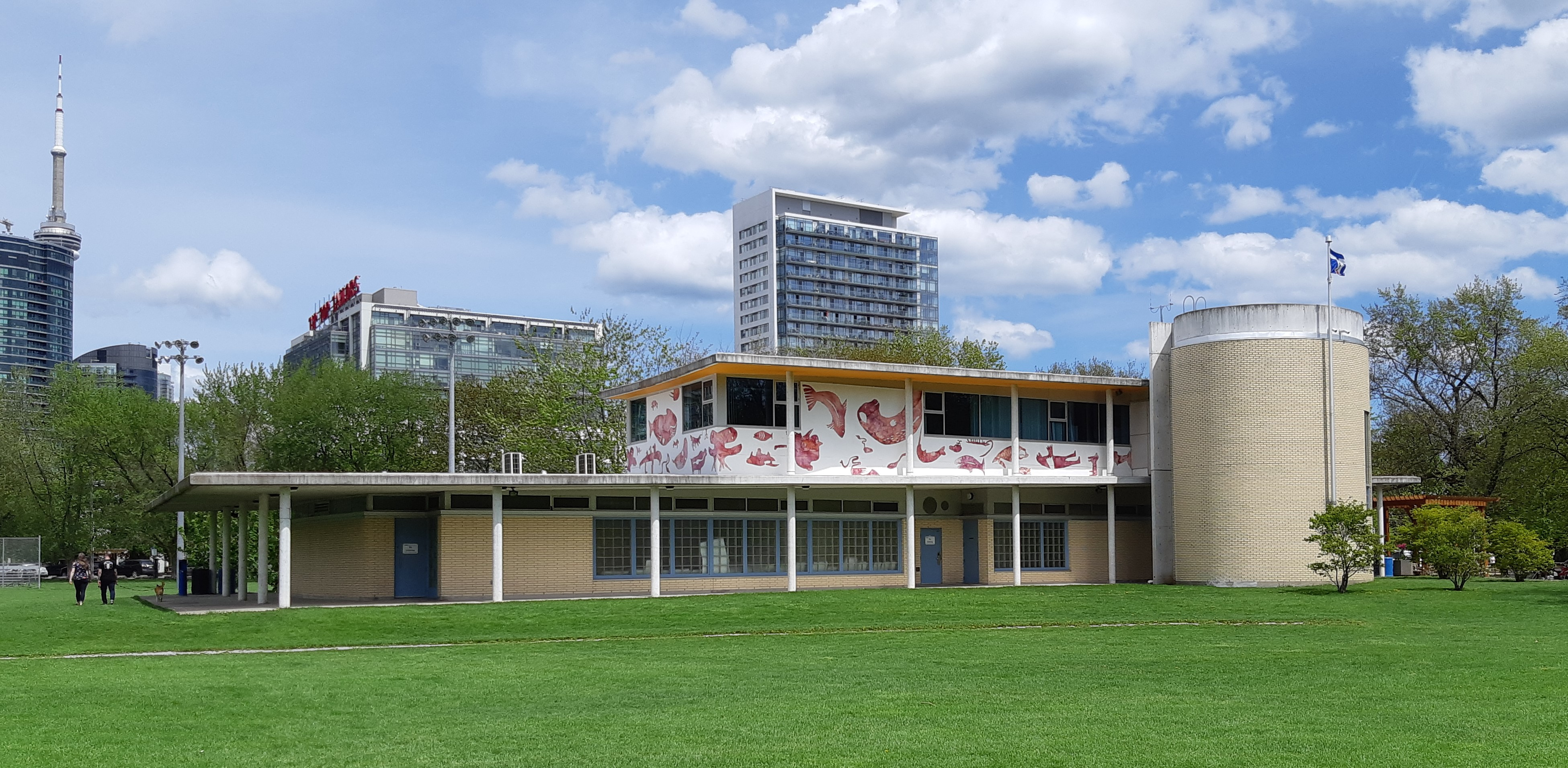 Fieldhouse in Toronto Coronation Park